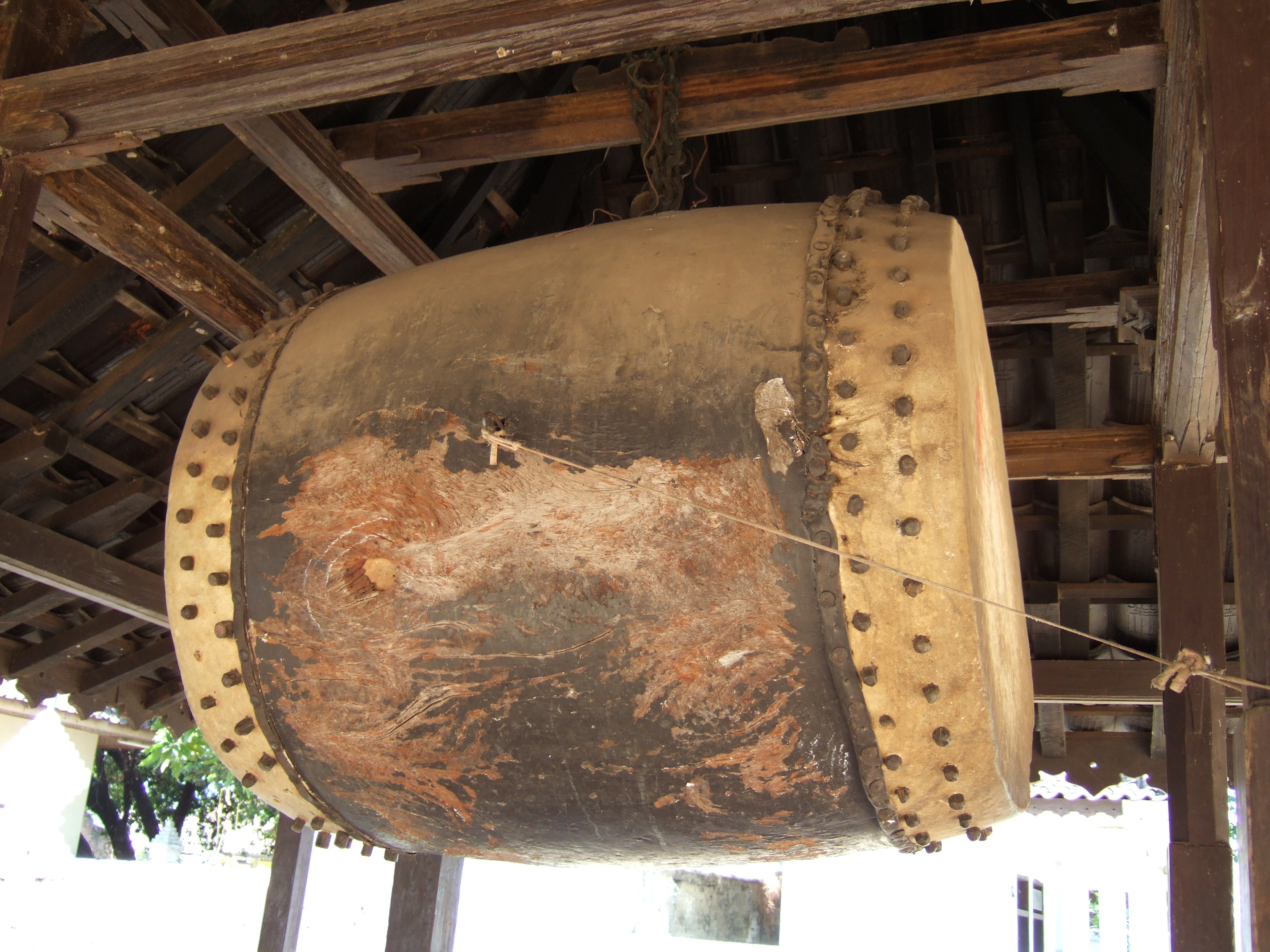 Beduk (big drum), Keraton Kasepuhan, Cirebon, Indonesia